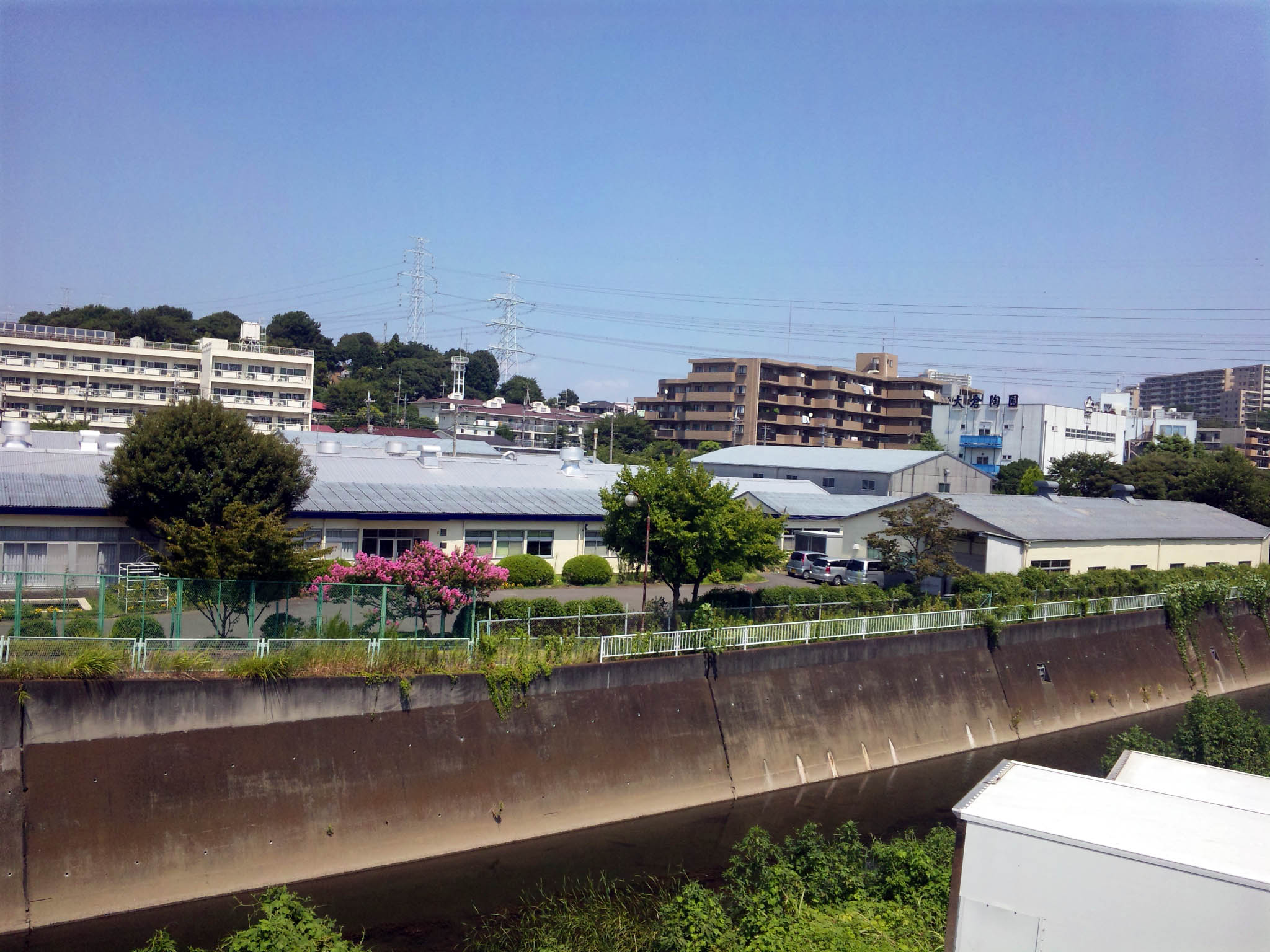 Okura Touen